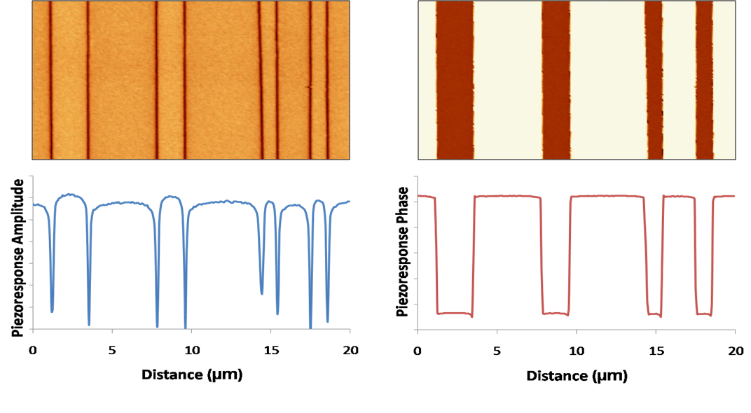 Piezoresponse Force Microscopy image of 180 degree domains and line profiles